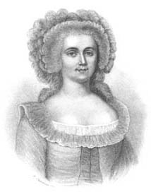 Jeanne de Saint-Remy de Valois, Countess de la Motte (1756 - 1791), was infamous for her involvement in the 'Affair of the Diamond Necklace', the scandal which contributed to the downfall of the French monarchy - Napoleon once remarked, 'The Queen's death must be dated from the Diamond Necklace Trial'. Jeanne de la Motte, imprisoned after her trial, escaped from the Bastille and fled to London, where she published her memoirs, adding to the revolutionary fervour in France. In June 1791, to escape bailiffs (although she assumed they were the agents of the Duke of Orleans) she climbed out of a third floor window at her Lambeth lodgings and fell into the street below. The countess died two months later from her injuries and was buried in the churchyard of St. Mary's. 18th century